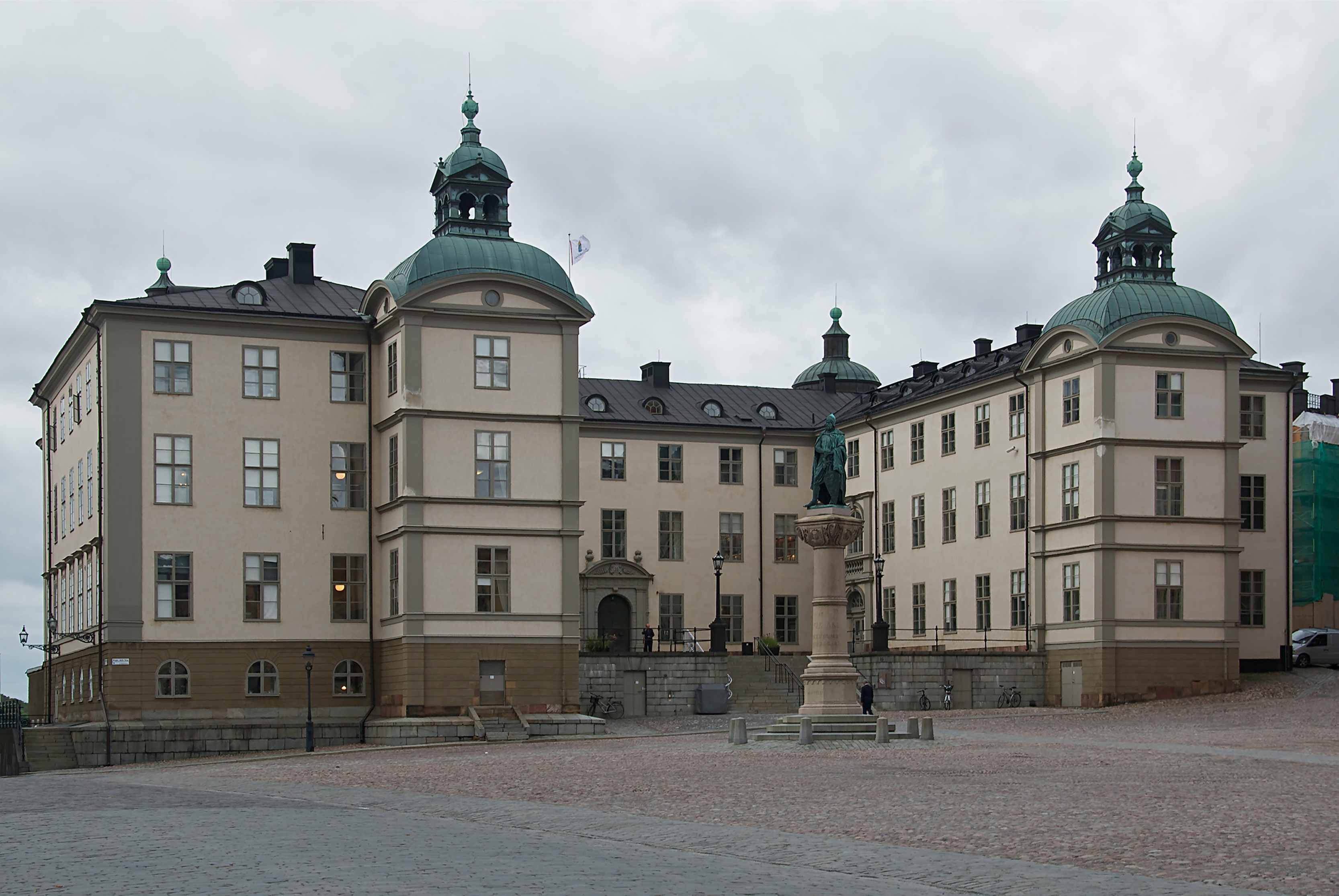 Wrangelska palatset